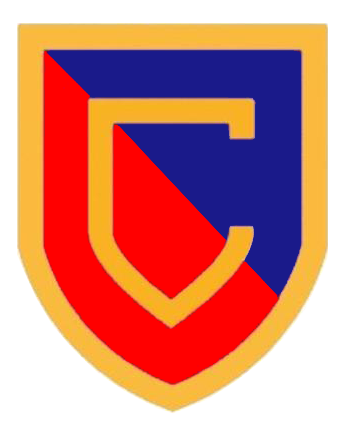 Argentine rugby union Club Curupaytí logo.